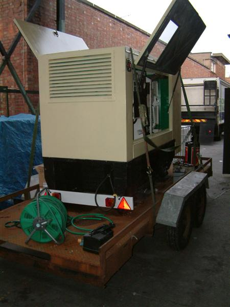 This is an image of the size of a large Perkins Diesel Generator, manufactured by FG Wilson, Ireland and supplied to Production Power Generators in 2005. This is a 100KVA Super Silent Diesel Set. Photo taken by Alex user:cyberprog